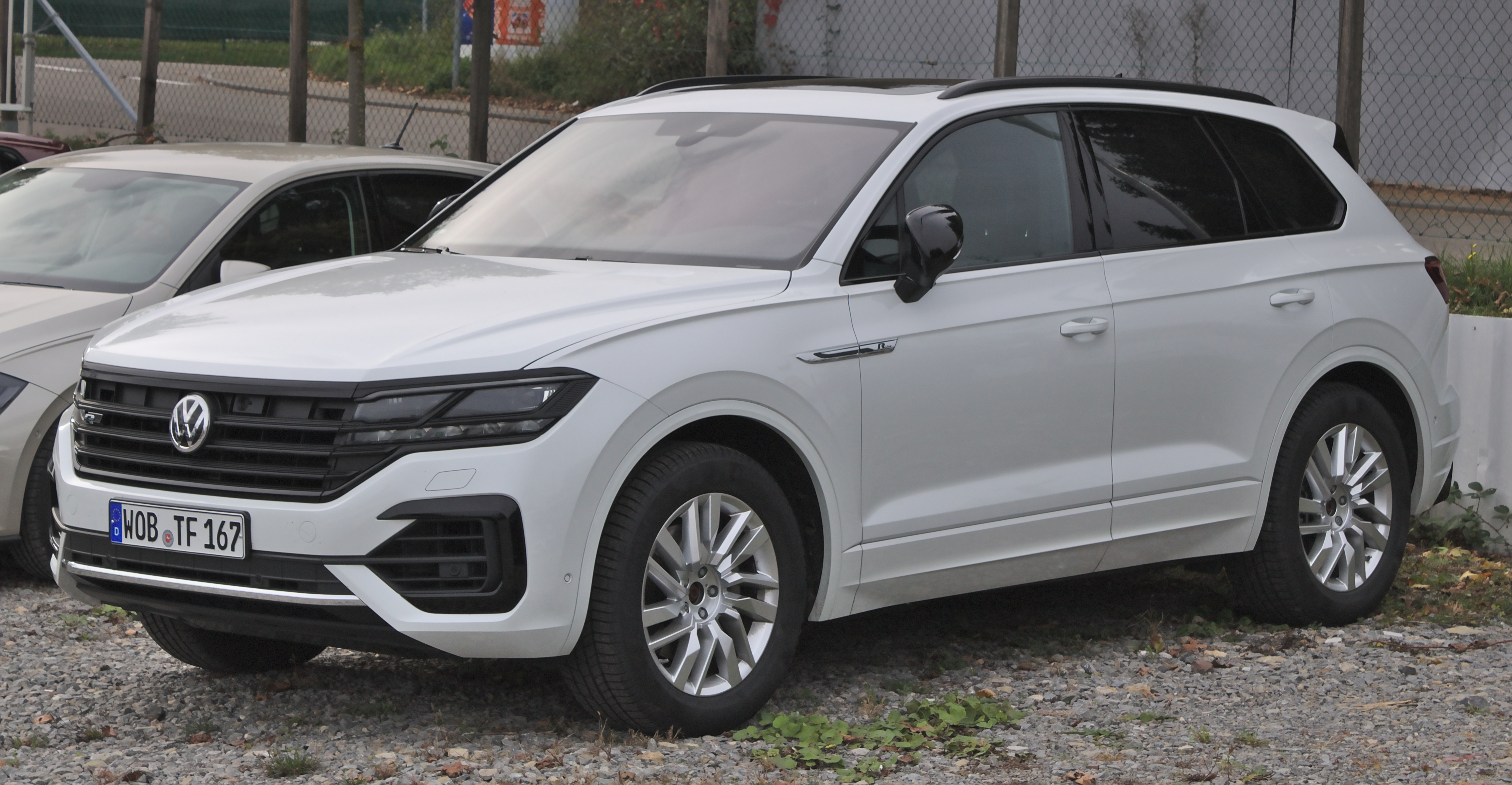 Volkswagen_Touareg_III in Stuttgart-Vaihingen